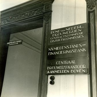 Entrance-hall of Herengracht 282, Amsterdam (1941)